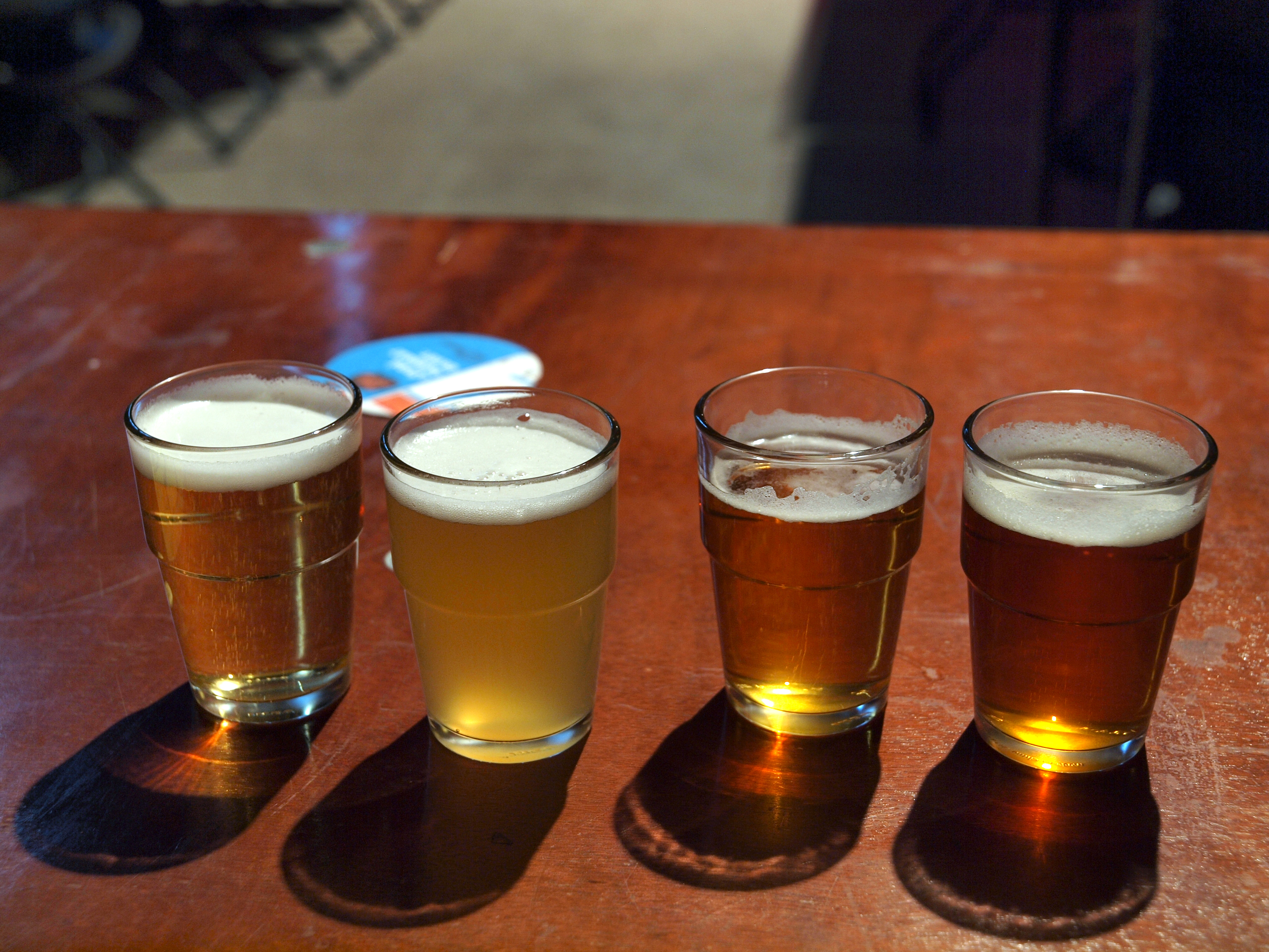 Four different beers from Finnish small breweries to taste at a beer tasting at the Helsinki Beer Festival 2016 at Kaapelitehdas, Ruoholahti, Helsinki, Uusimaa, Finland.